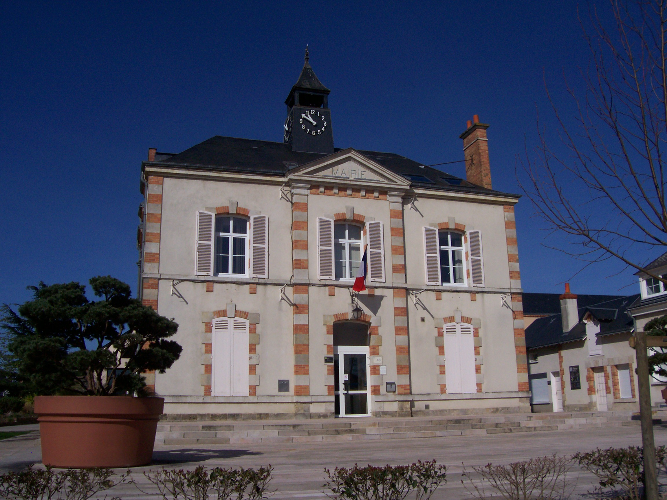 Town hall of Saint-Jean-de-Braye, Loiret, France